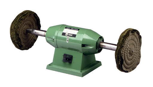 Polishing machine eigenes Bild Nixalsverdruss! 19:01, 17. Jul 2006 (CEST)